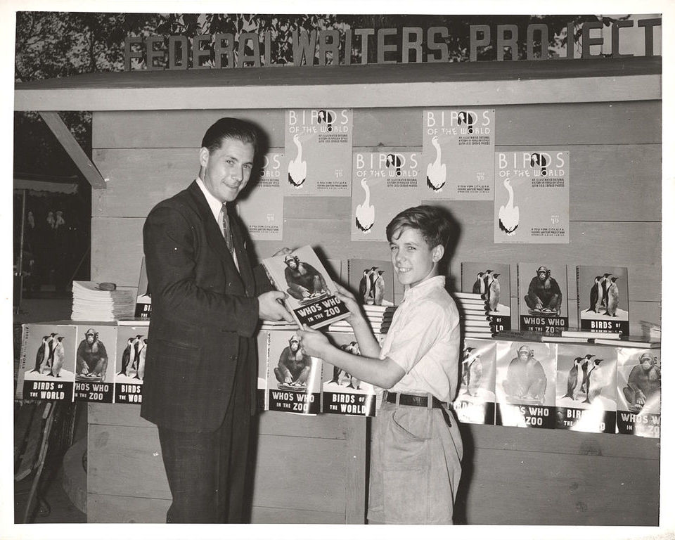 Federal Writers' Project Presentation